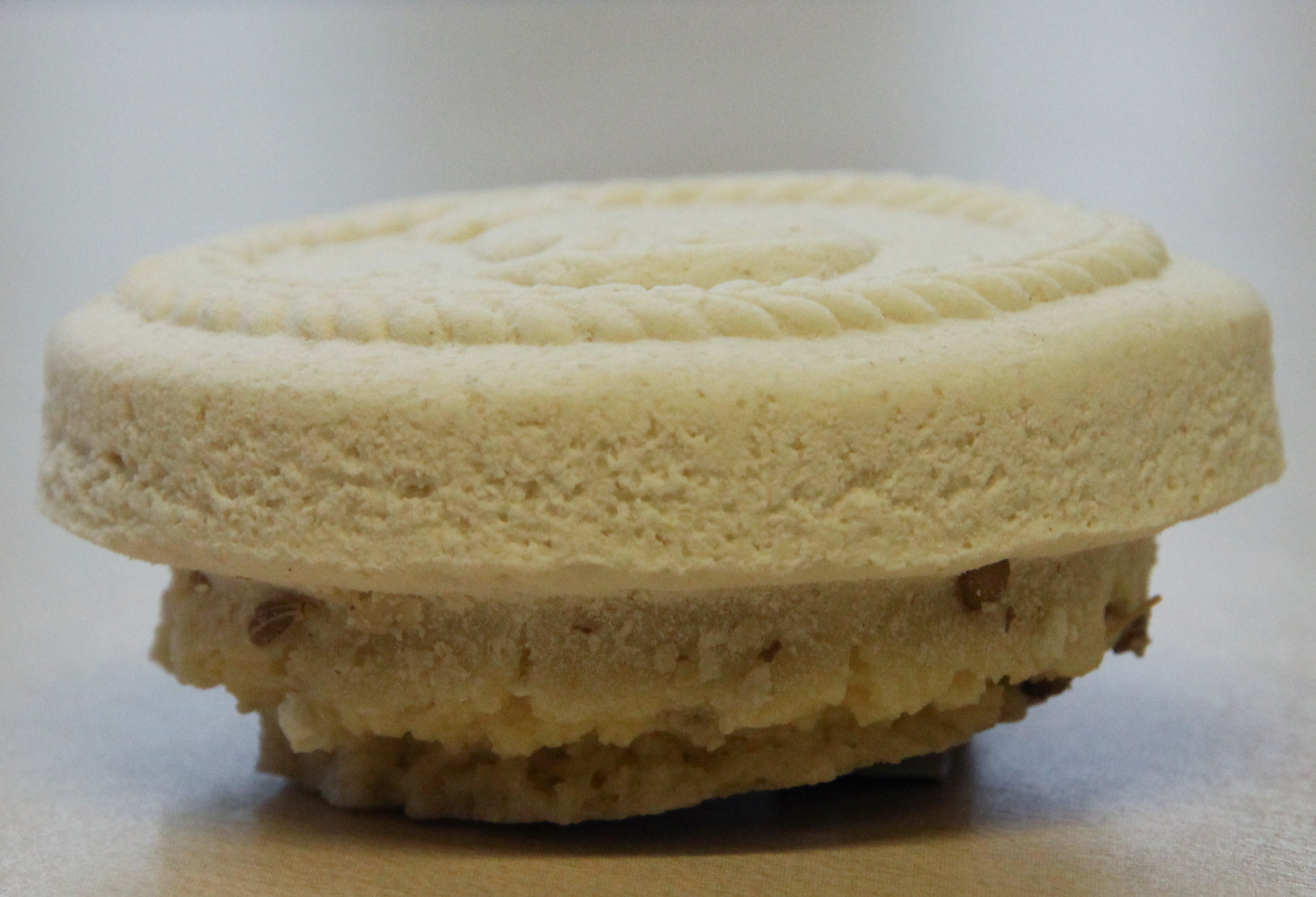 Front view of a swabian christmas cookie "Springerle" with cat motive. Below, the "foot" (swabian Füßle) is clearly visible.